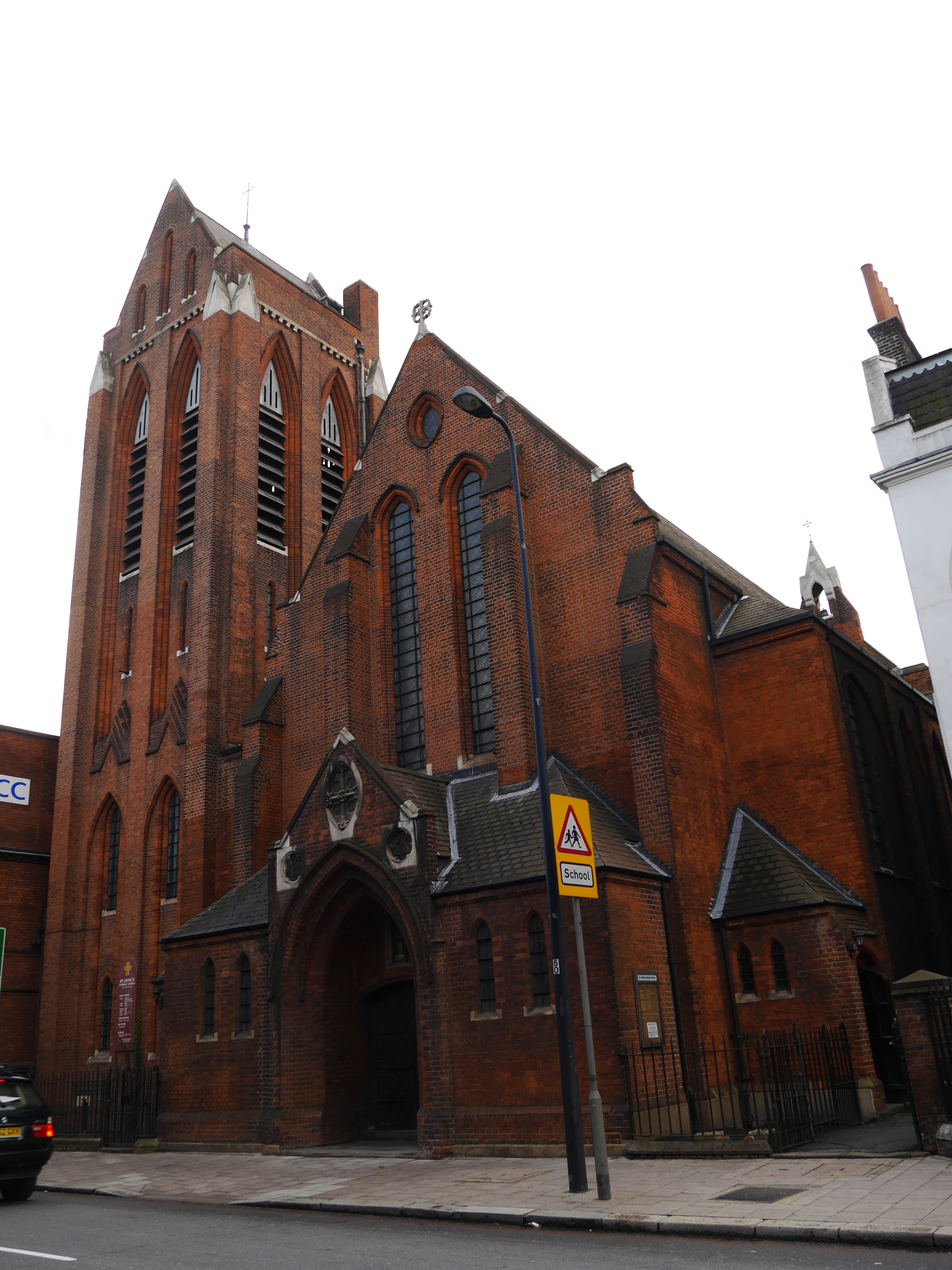 St Anne's Church, Vauxhall, October 2014